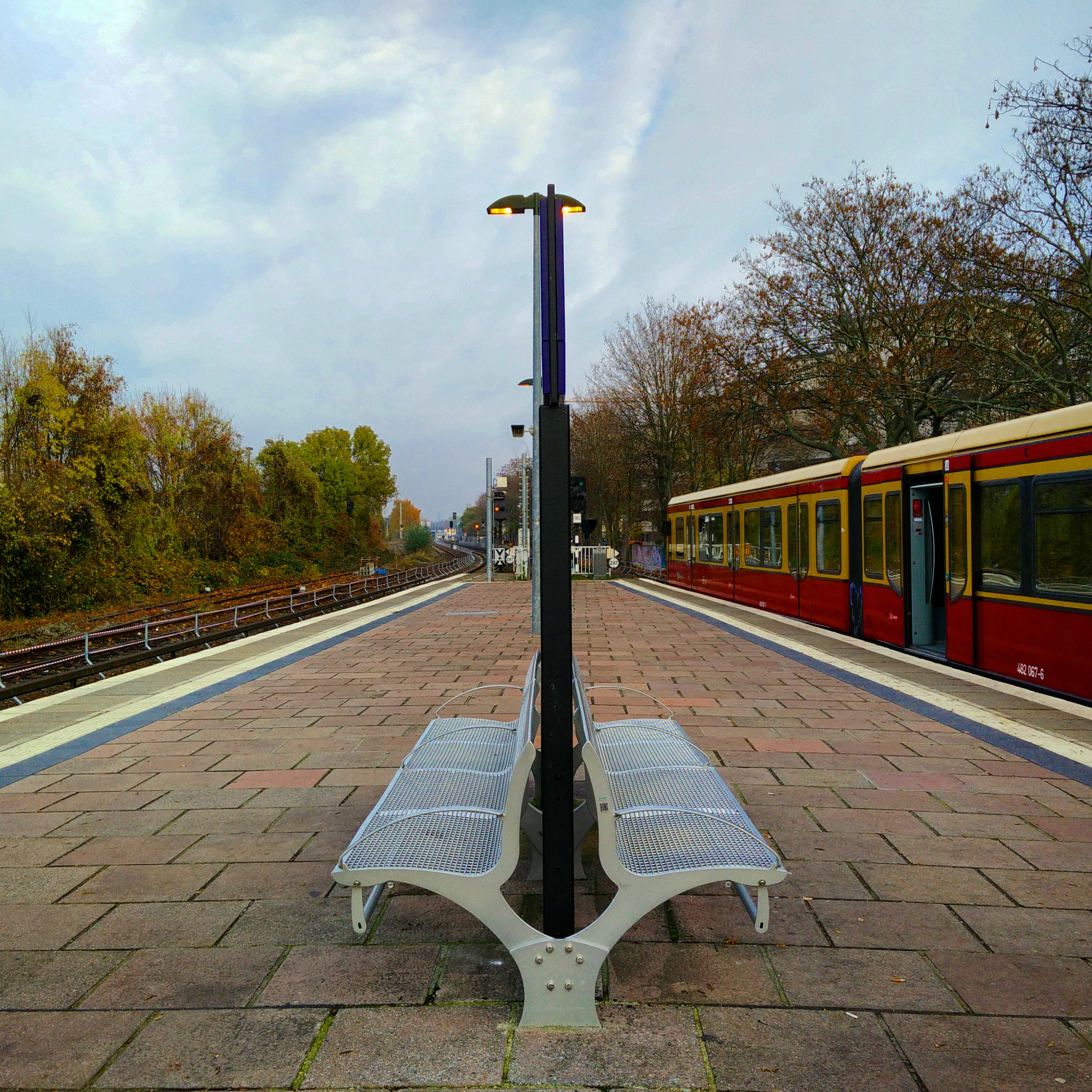 S-Bahn train at Nöldnerplatz, Berlin.